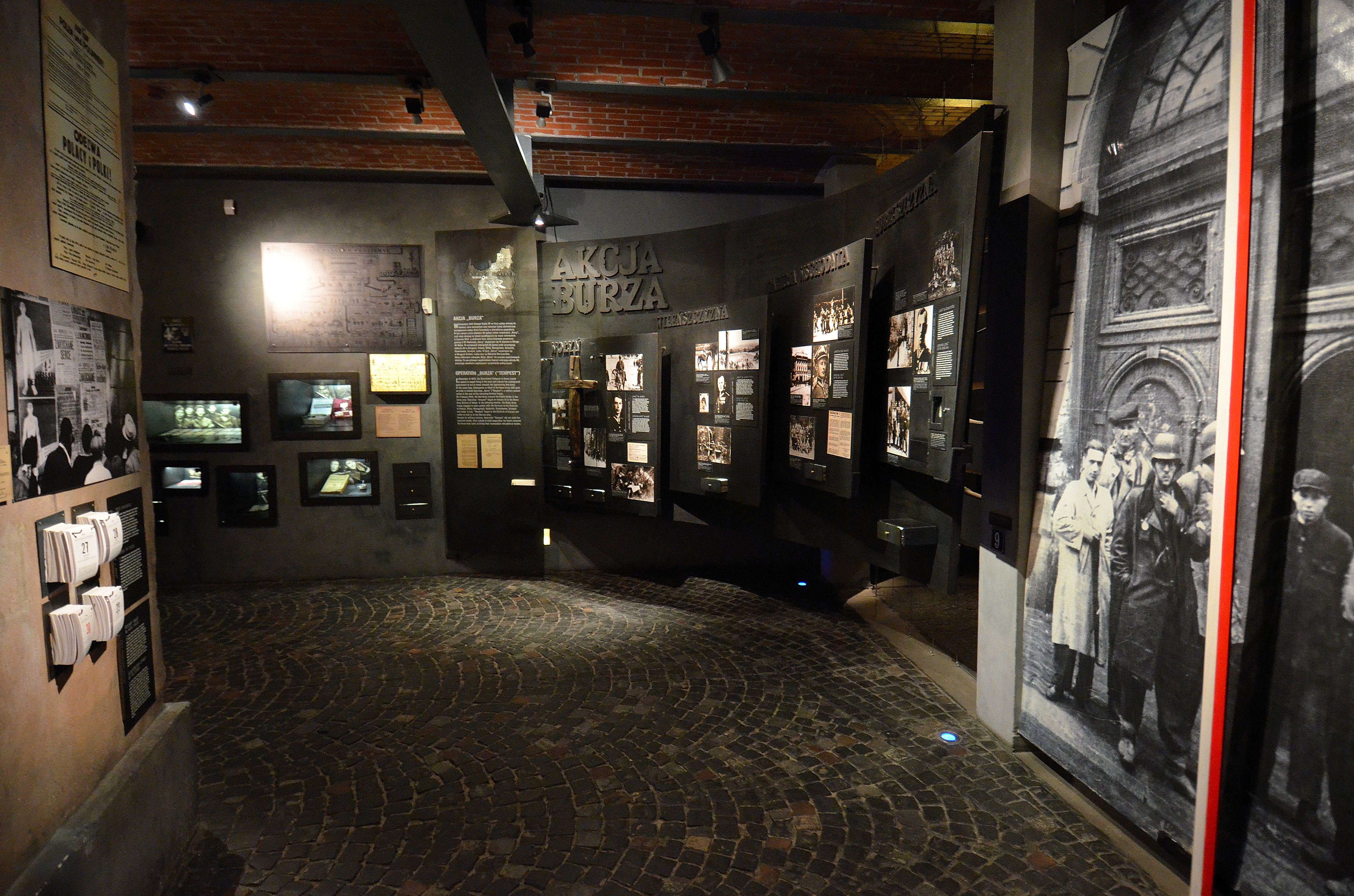 Exhibition "Operation Tempest" at the Warsaw Uprising Museum